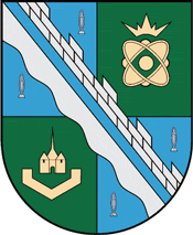 Sosnovy Bor (Leningrad oblast), coat of arms, author Yuri Savtchenko